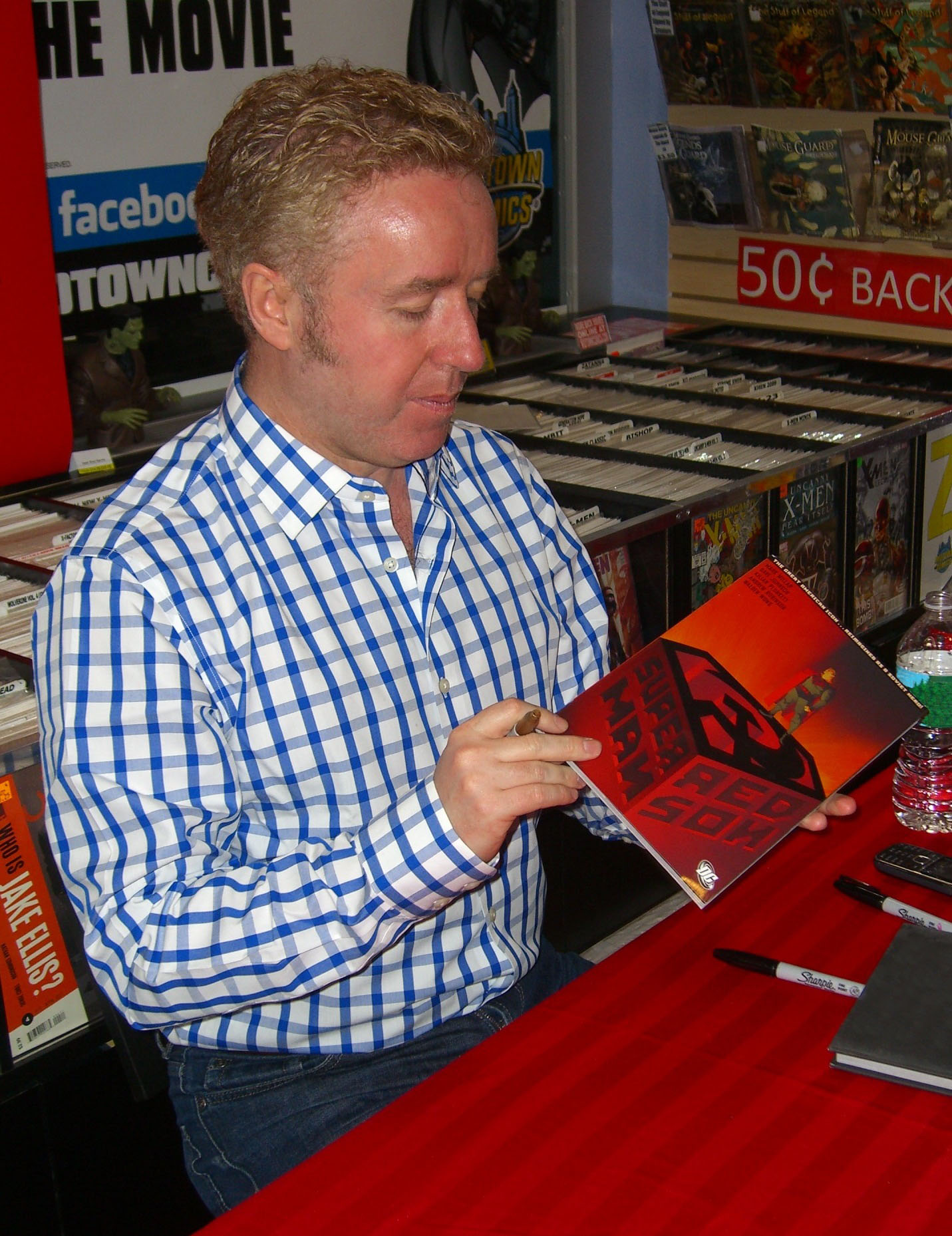 Scottish comics writer Mark Millar at an April 25, 2013 signing at Midtown Comics in Manhattan for his miniseries, Jupiter's Legacy, which debuted the day prior. In the photo, Millar is signing a copy of one of his previous works, Superman: Red Son. This photo was created by Luigi Novi. It is not in the public domain, and use of this file outside of the licensing terms is a copyright violation.